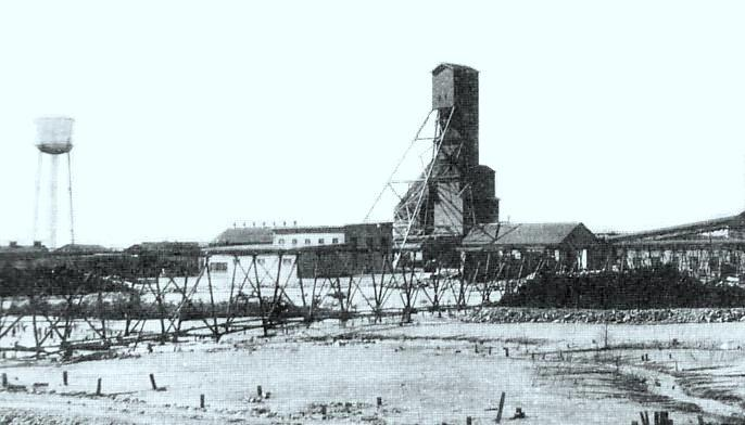 Gold mine, Lamaque, Abitibi, Quebec